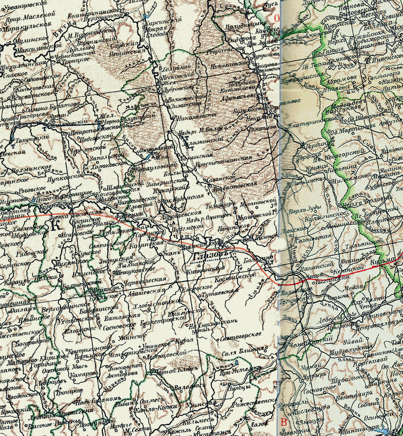 Atlas by A. F. Marx. 1903.